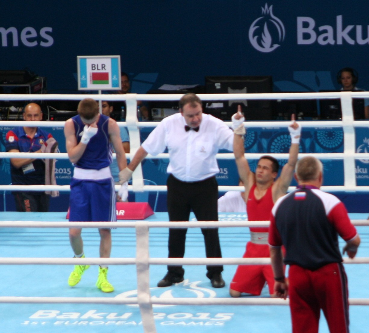 Bakhtovar Nazirov vs Dzmitry Asanau - 2015 European Games - Final